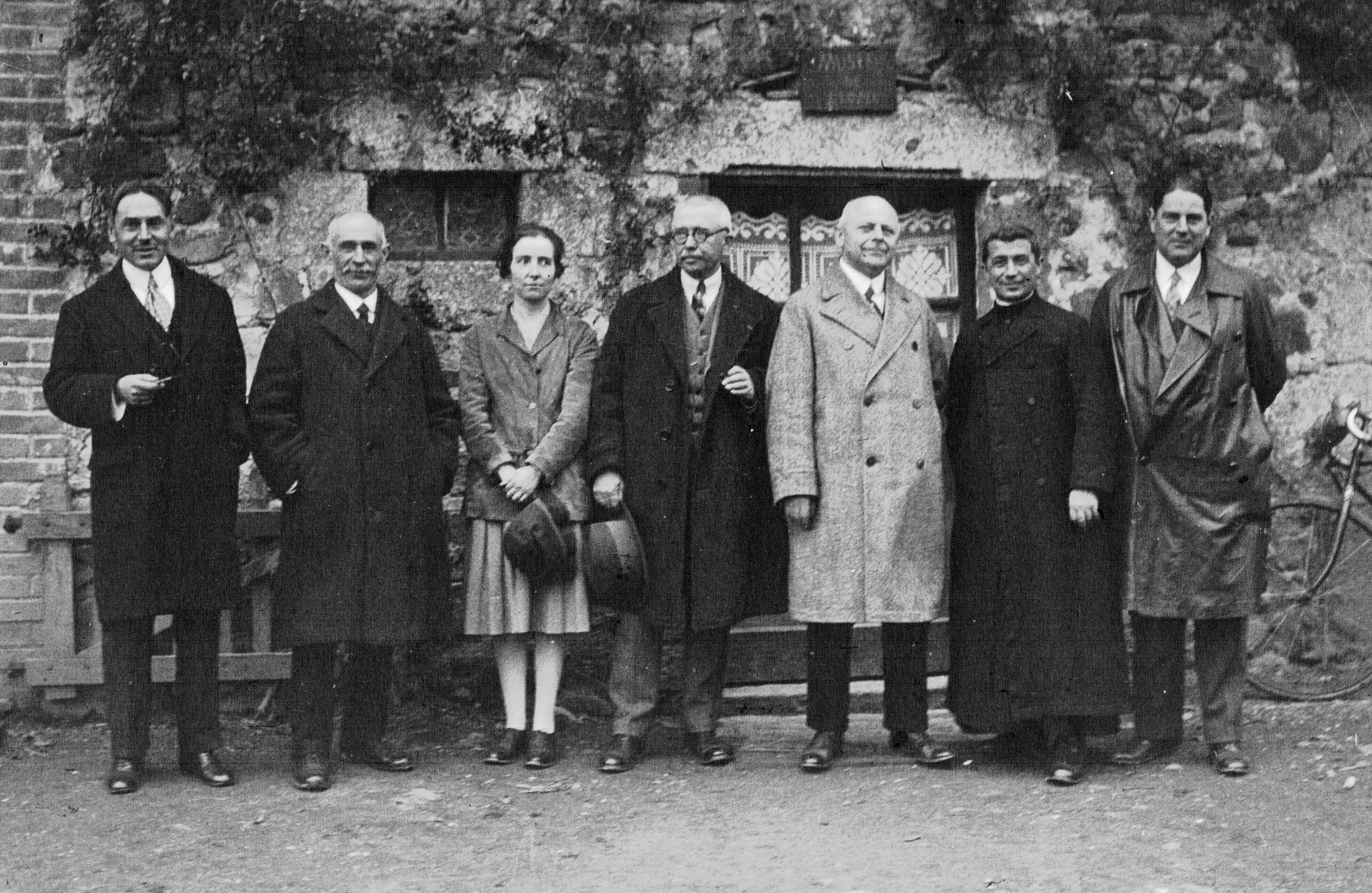 International archaeological commission at Glozel (Ferrières-sur-Sichon, Allier, France).